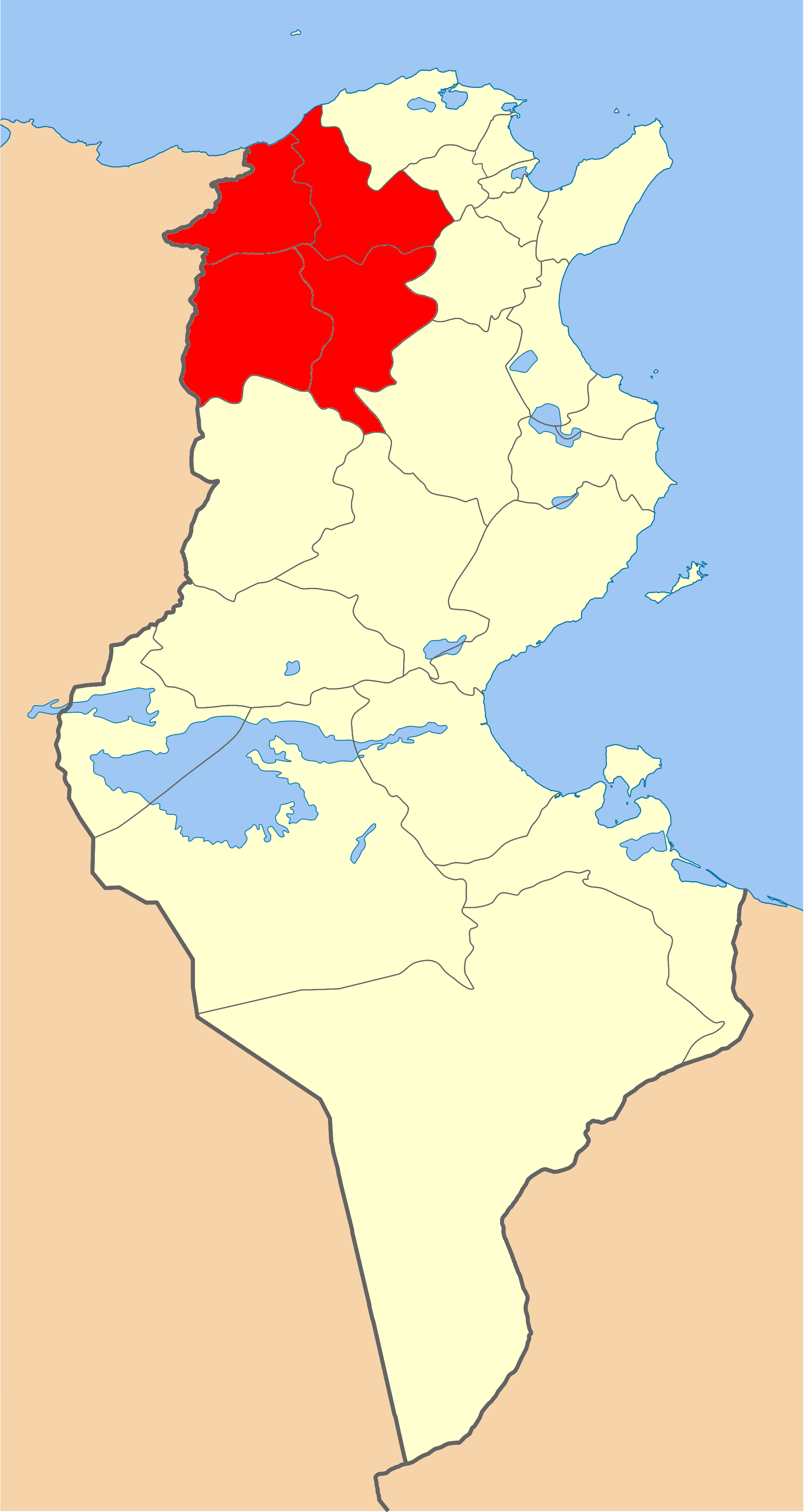 North West Tunisia in a Tunisian map with governorates. Original picture comes User:Nidhal Bechrifa from which is a derivated work of